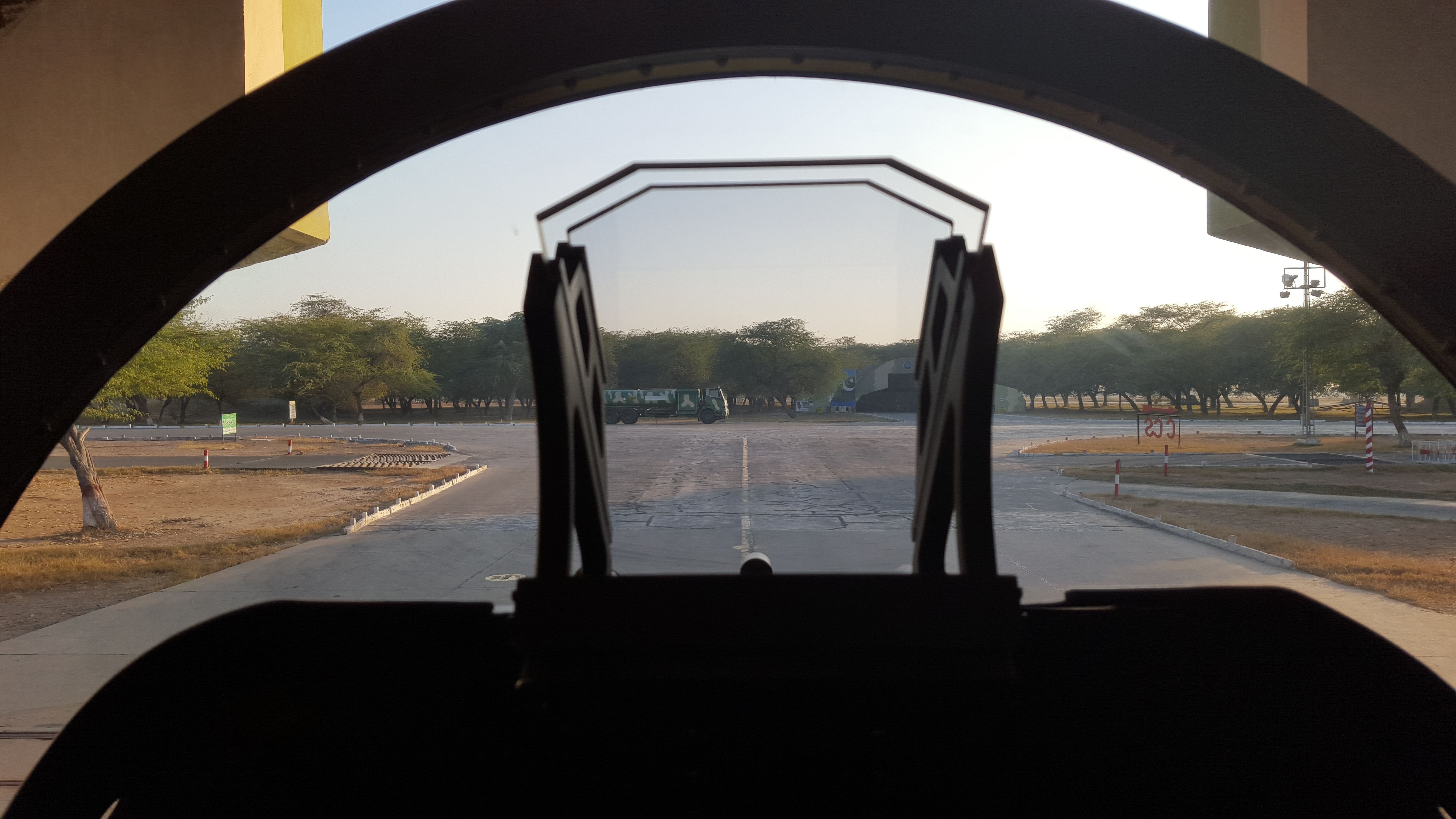 PAF airbase Sargodah 20151218